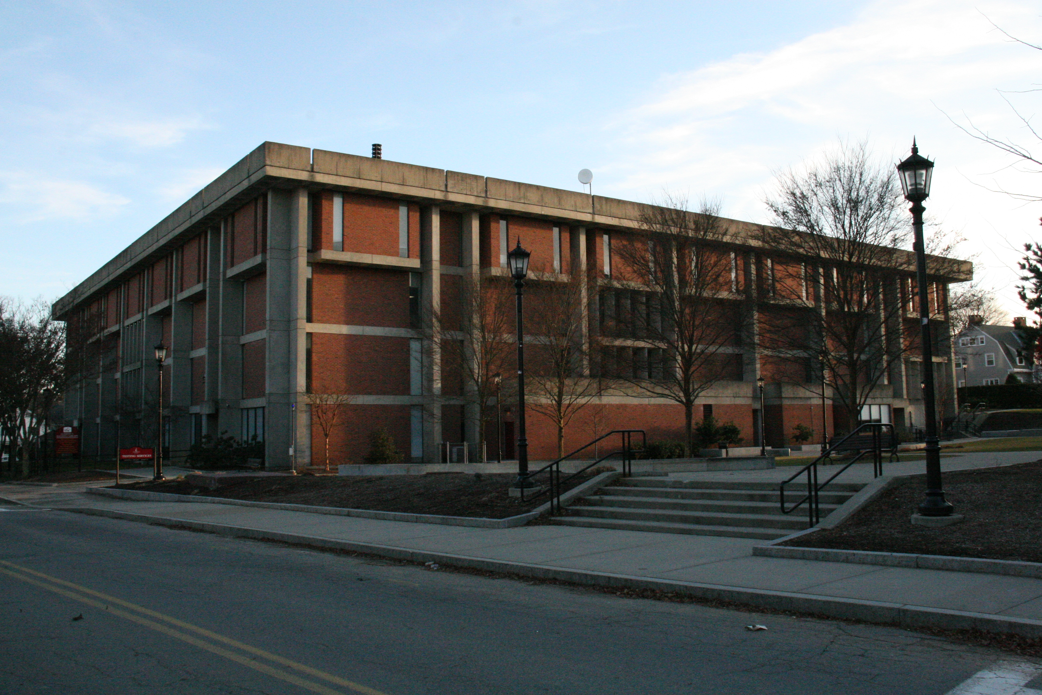 Bridgewater University 10 Shaw Rd. Bridgewater Ma.